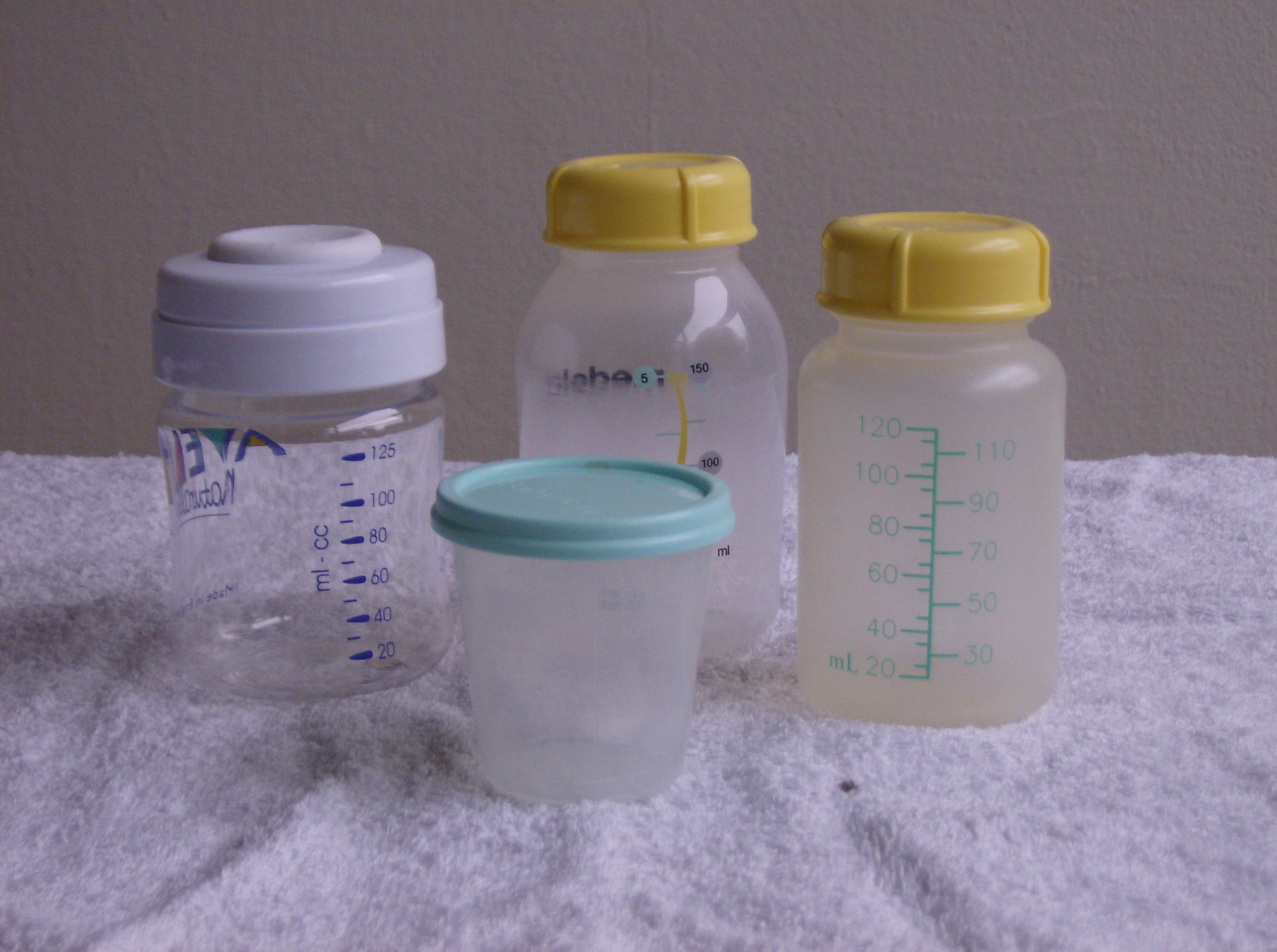 Storage containers, bottles and cups for expressed breast milk are on a cloth on a table. The containers are of the Medela, Avent and Ameda brands.